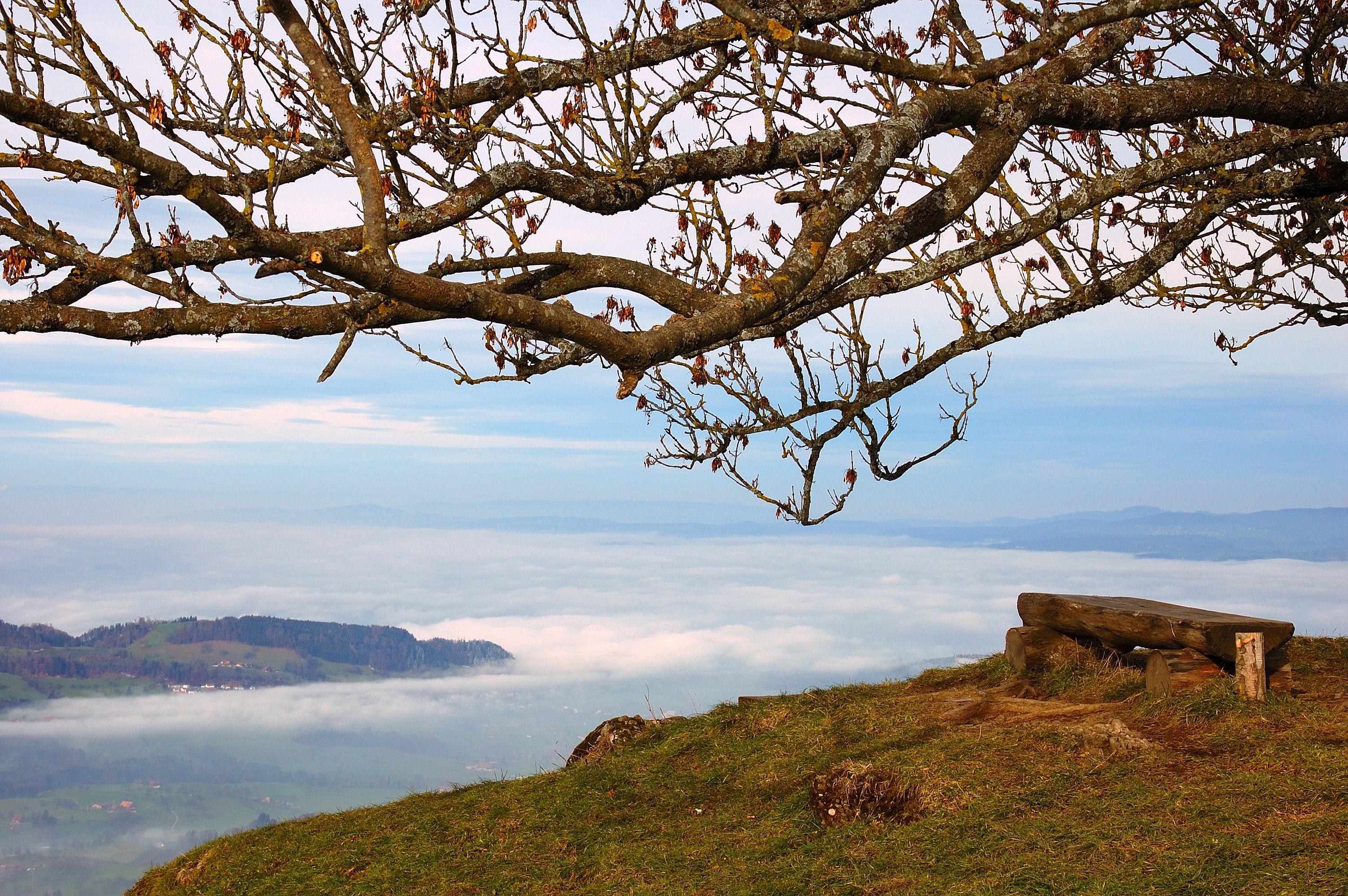 view from the Seebodenalp near Küssnacht over the foggy landscape around Lake Zug/Switzerland